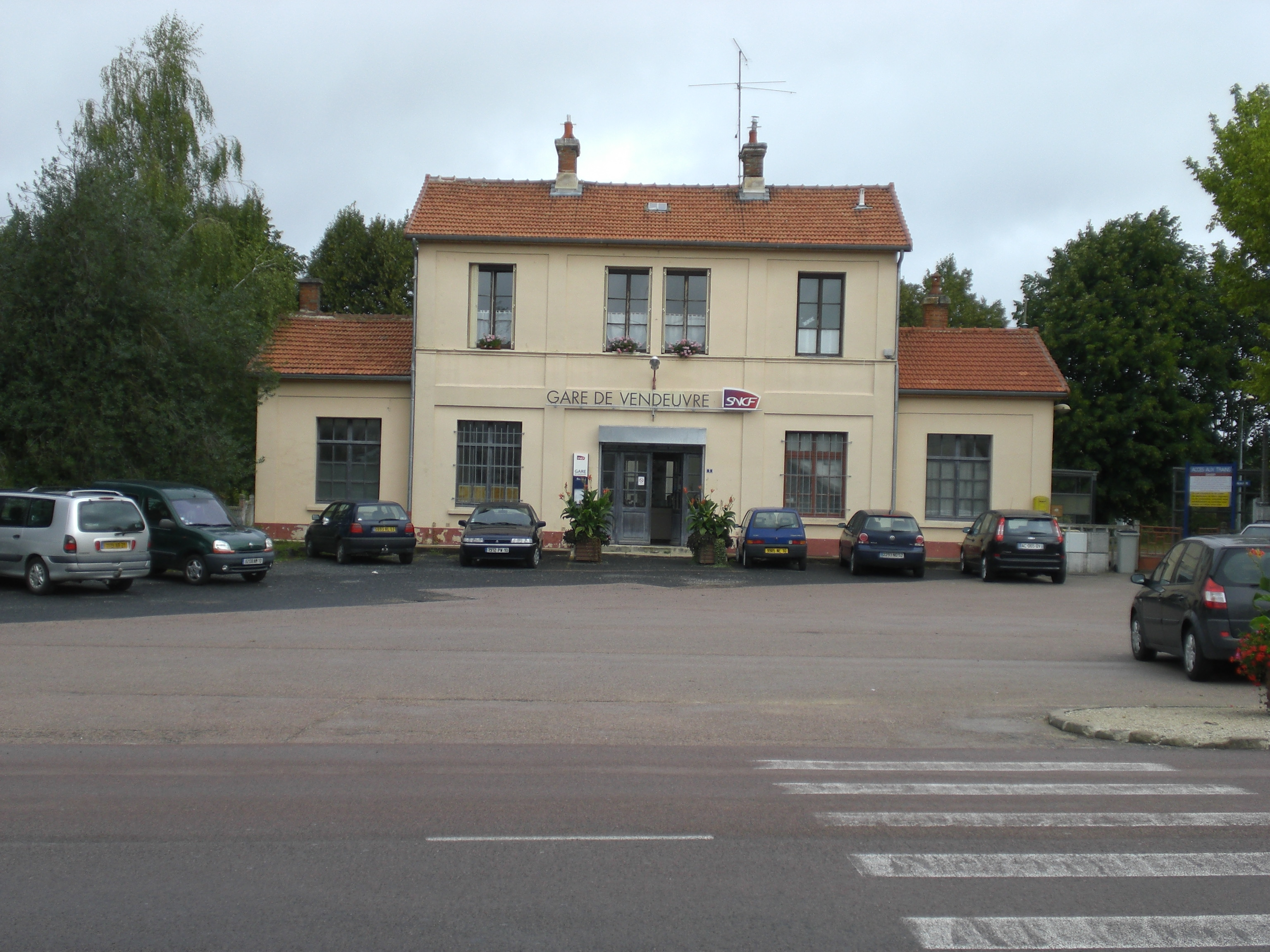 Station of Vendeuvre; street front